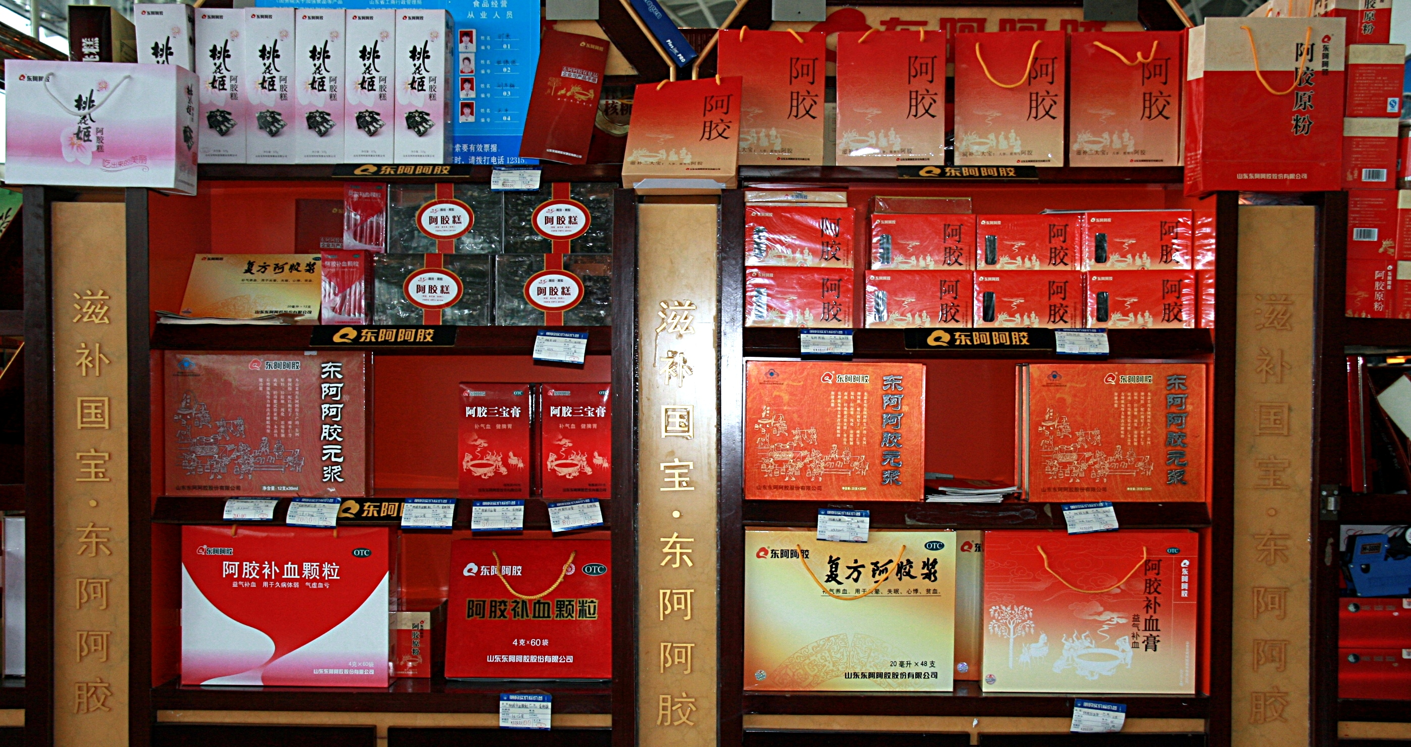 Photograph of Ejiao products for sale at a stall in Jinan International Airport, Jinan City, Shandong Province, China. With slab of donkey-hide gelatin.